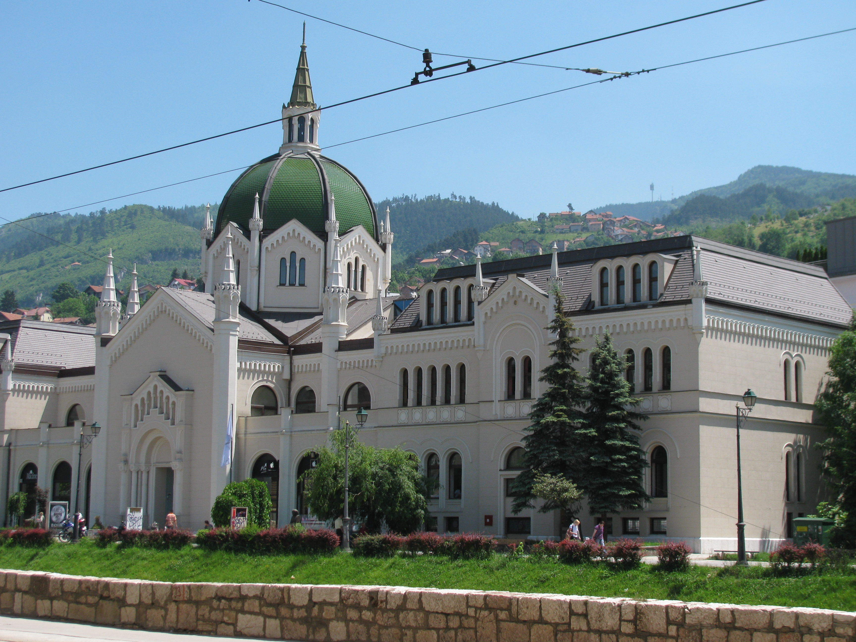 The Academy of Fine Arts Sarajevo (Akademija likovnih umjetnosti Sarajevo)